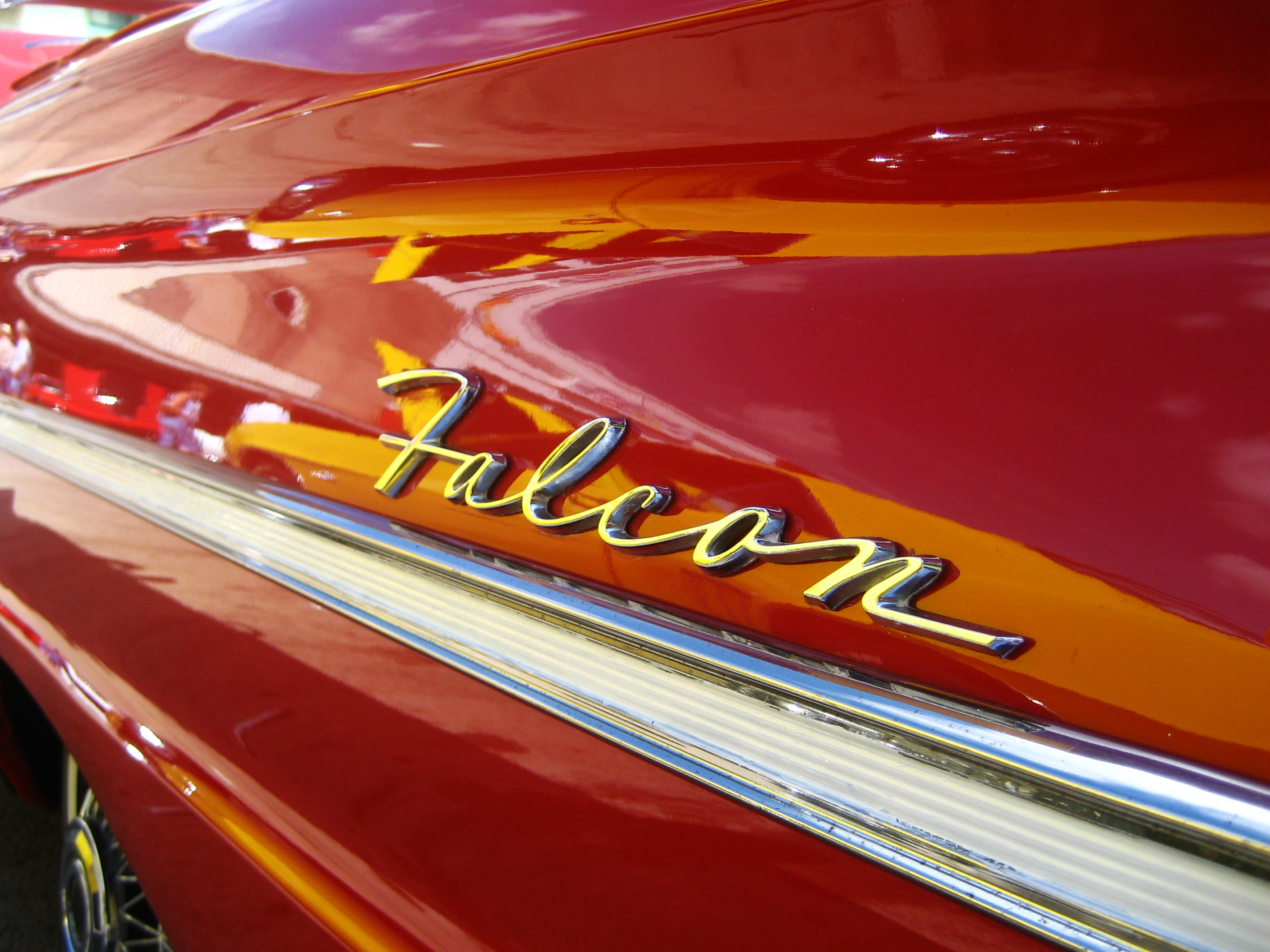 Falcon badge design that started it all